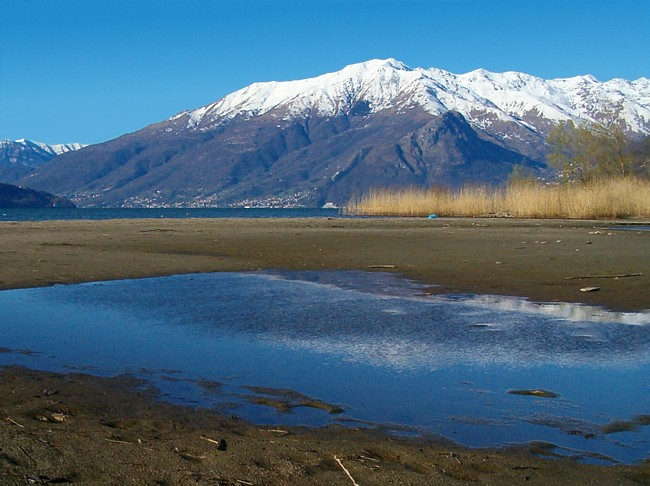 Monte Bregagno (2107m) Picture taken and edited by user Idefix april 2004